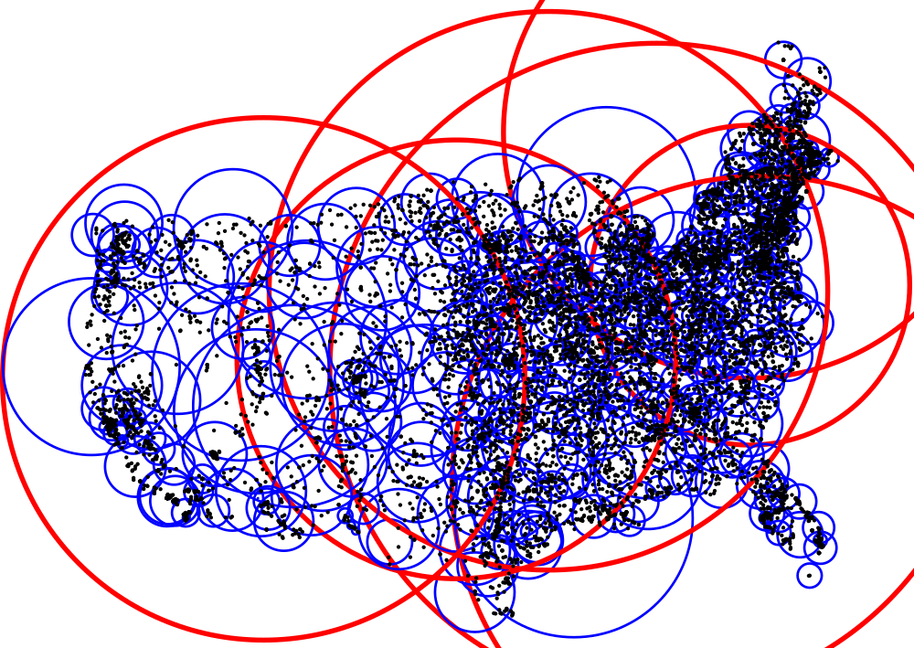 M-tree built by repeated insertion using the MMRad split strategy and storing all US postal codes.